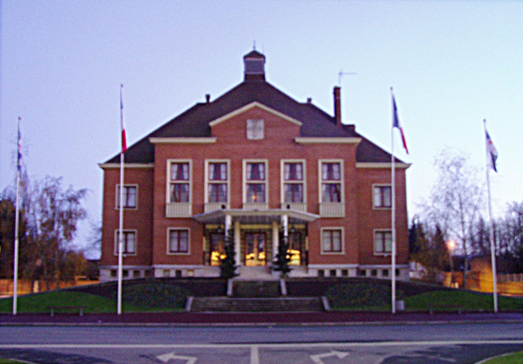 Rosieres-en-Santerre townhall, France.